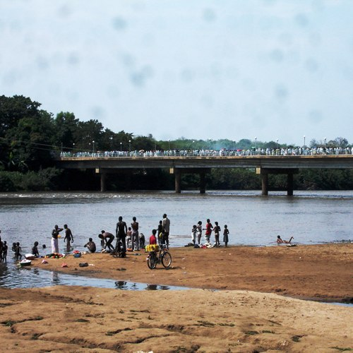 Baro River in Gambella region, Ethiopia. Original description by uploader: "taking pictures of bridges is strictly forbidden" [?] Baro River flows to Sudan (cf. this picture). It is also the heart of the Gambella region and Gambella city. People use to go to the river to wash, refresh, chat or just take some time. People belong to many different groups: indigenous Nuer, Anuak, Majangir... or settled Highlanders (for the Abyssinian highlands regardless Amhara, Tigray or Oromo) or Sudanese refugees. The situation of demographic, ethnic and cultural diversity leads to situations of complexity. Inducing tensions, conflicts or violences. At least it is what is written in the books... So far, it looks like a paradise.